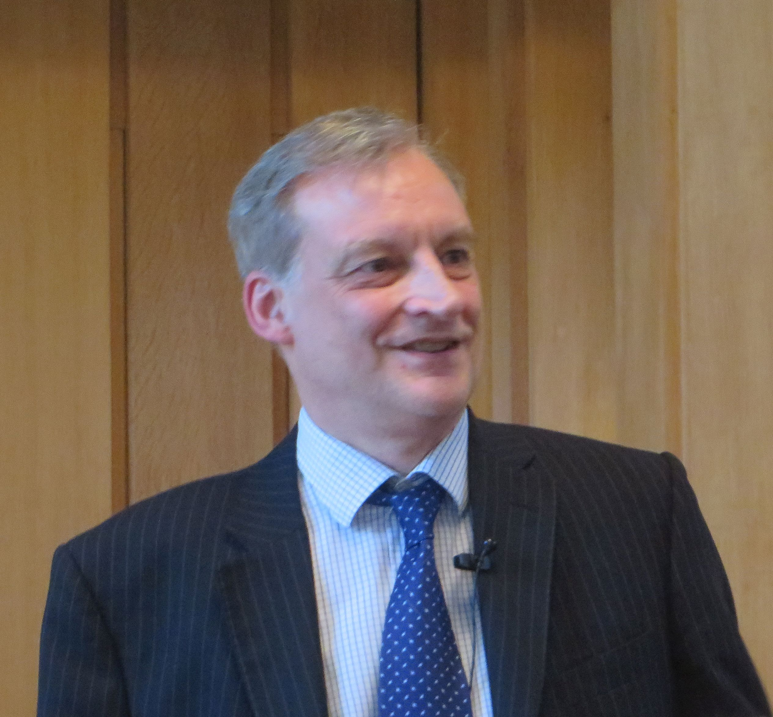 The Émigrés in Oxford Physics – HAPP Centre – Professor John Wheater, 25 February 2017, St Cross College, Oxford, England.